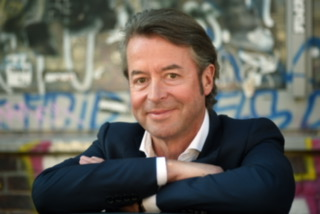 Prof. Dr. Peter Fissenewert